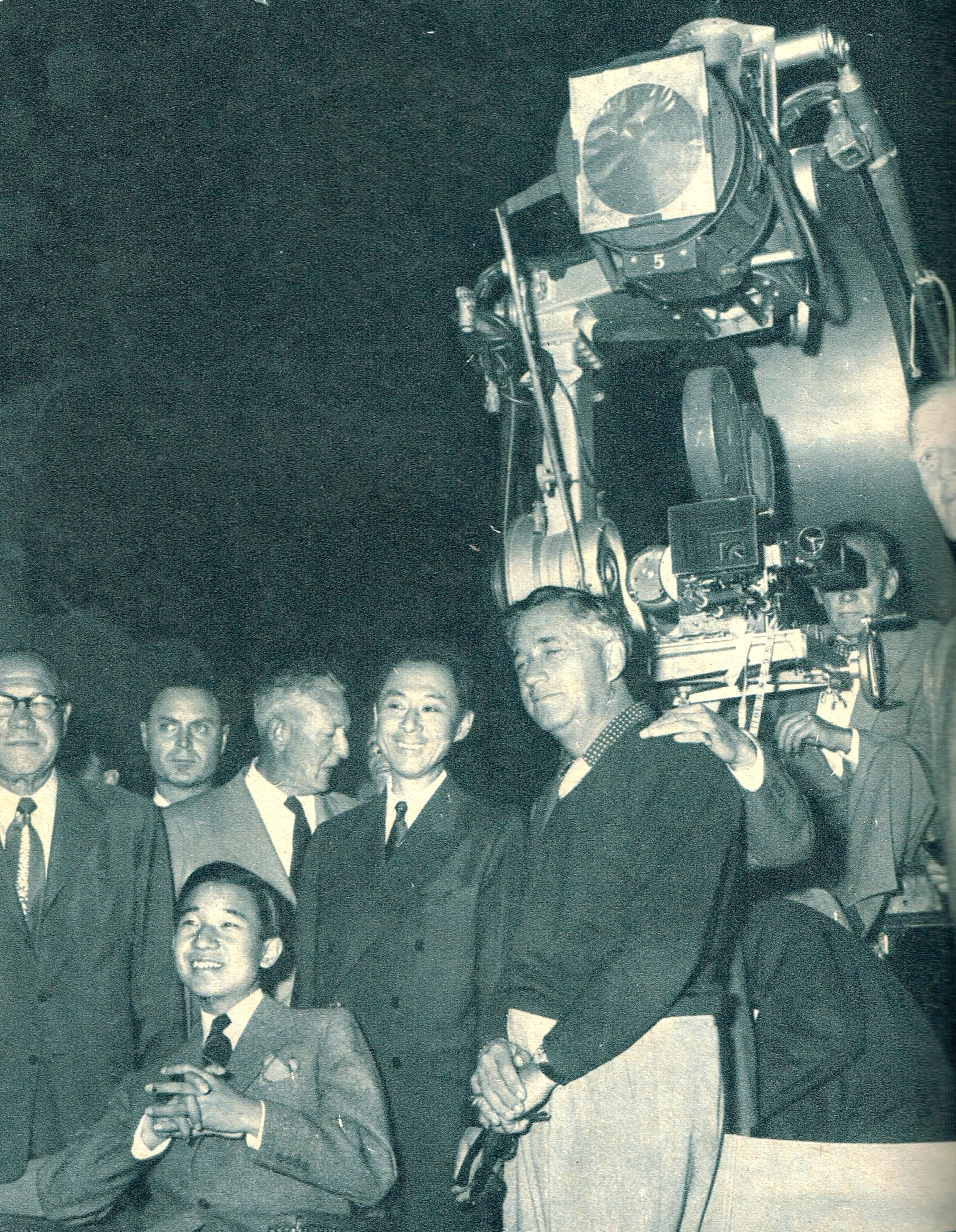 Crown Prince Akihito [now the Emperor] visits MGM studios (photo from Japanese movie magazine)